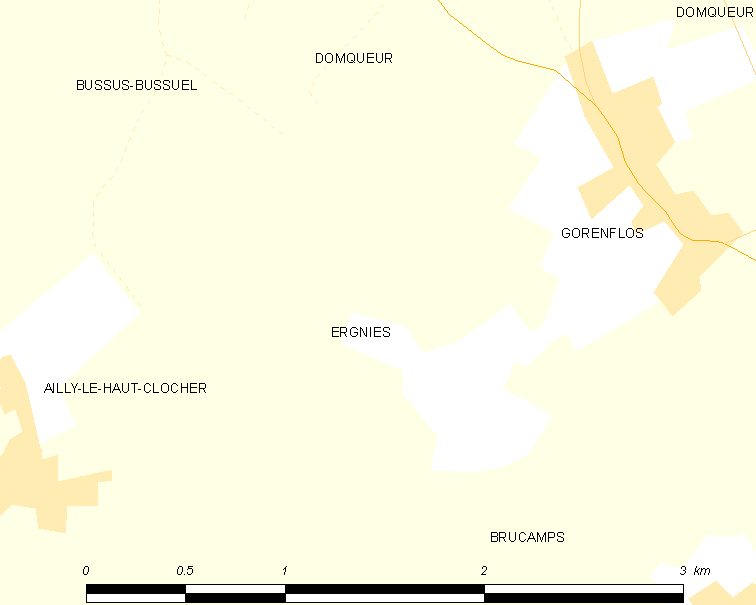 Map of French municipality Ergnies